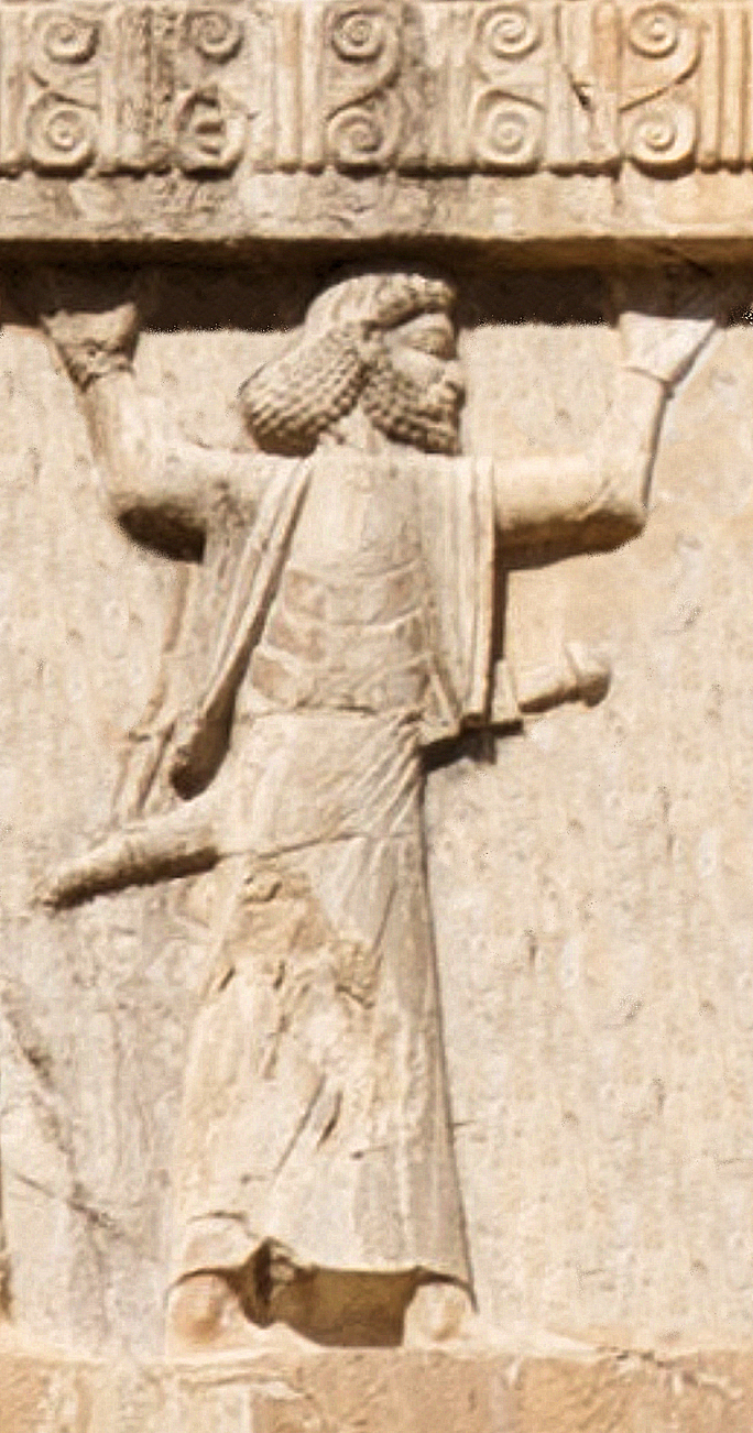 Xerxes I tomb Arab soldier circa 470 BCE